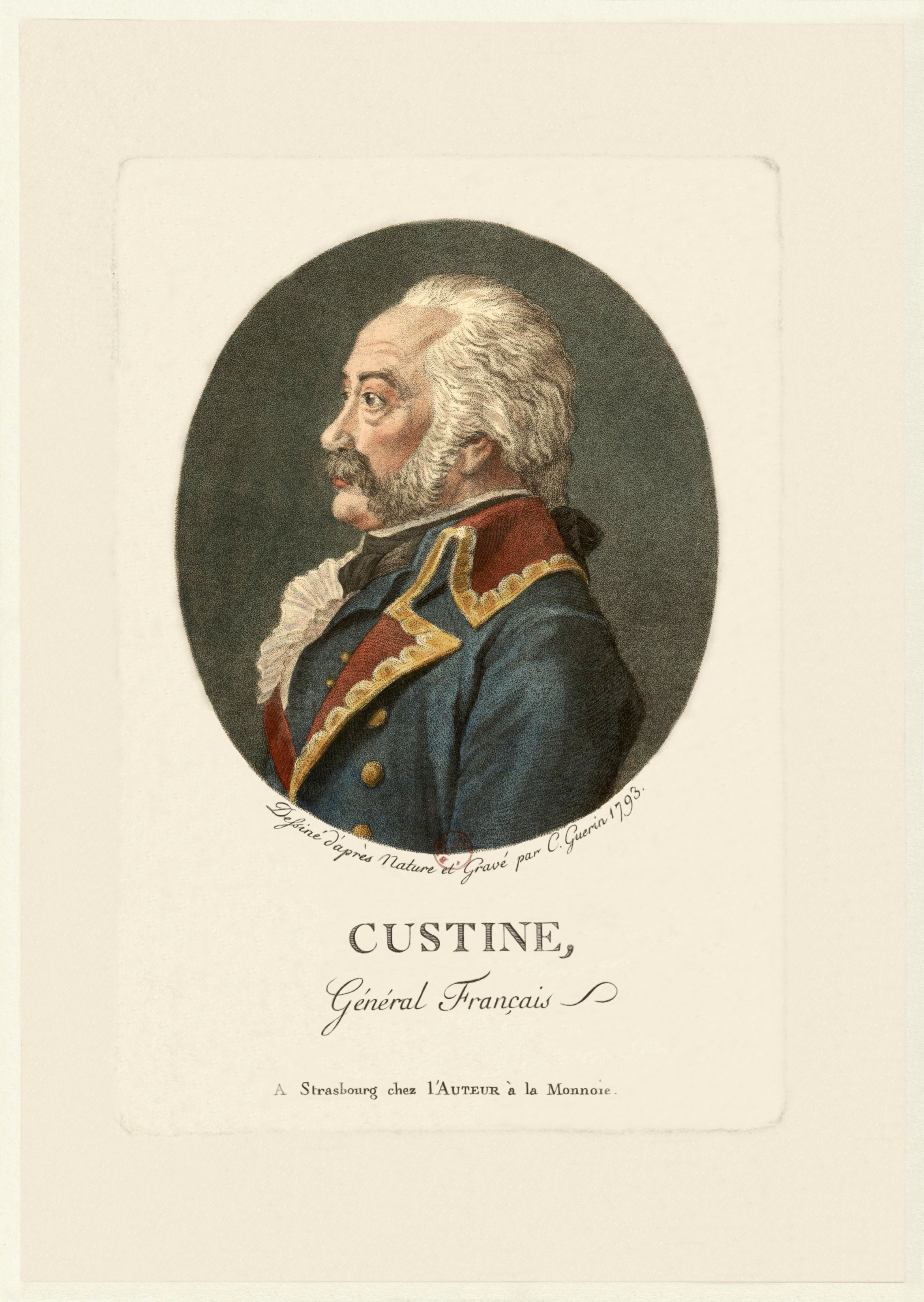 Adam Philippe, Comte de Custine (1742-1793). French general.